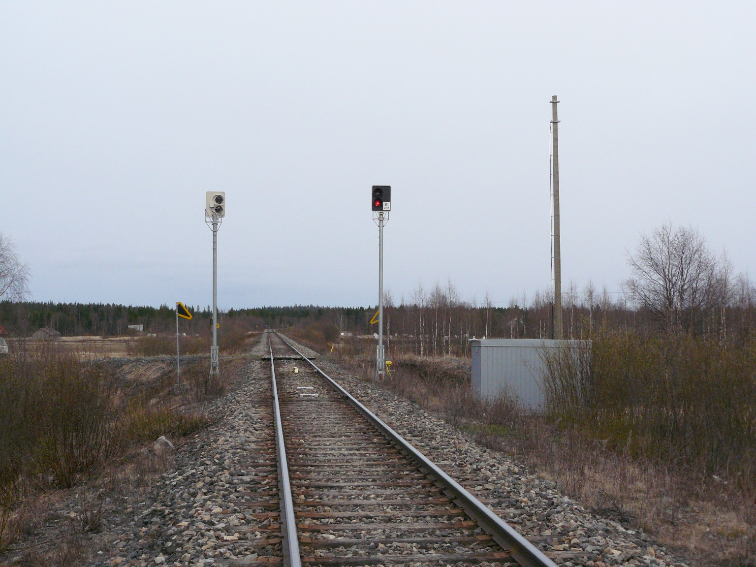 Block station at Niemenpää on Tornio–Kolari line.